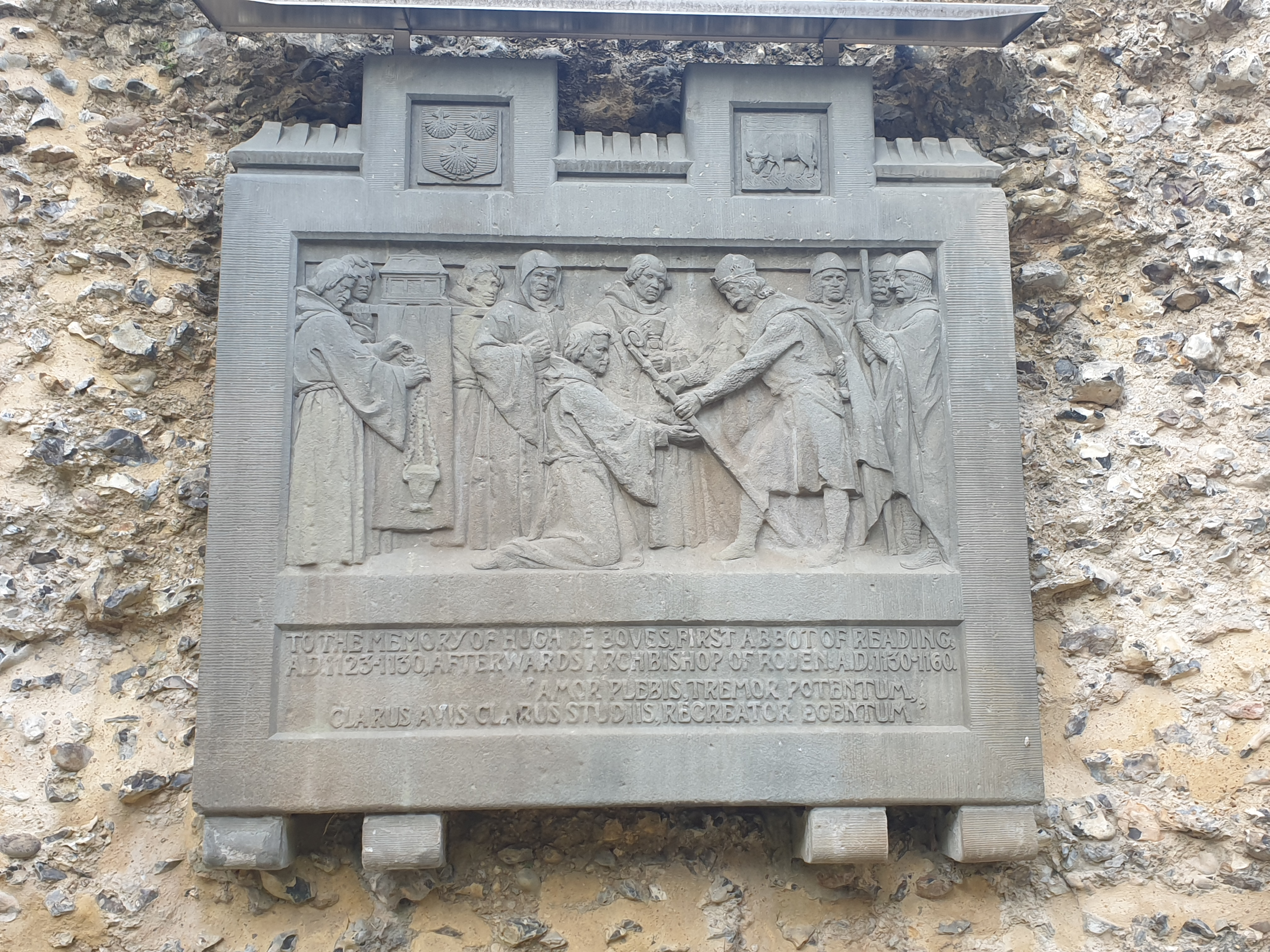 The memorial to Hugh de Boves in the Chapter House of Reading Abbey,.